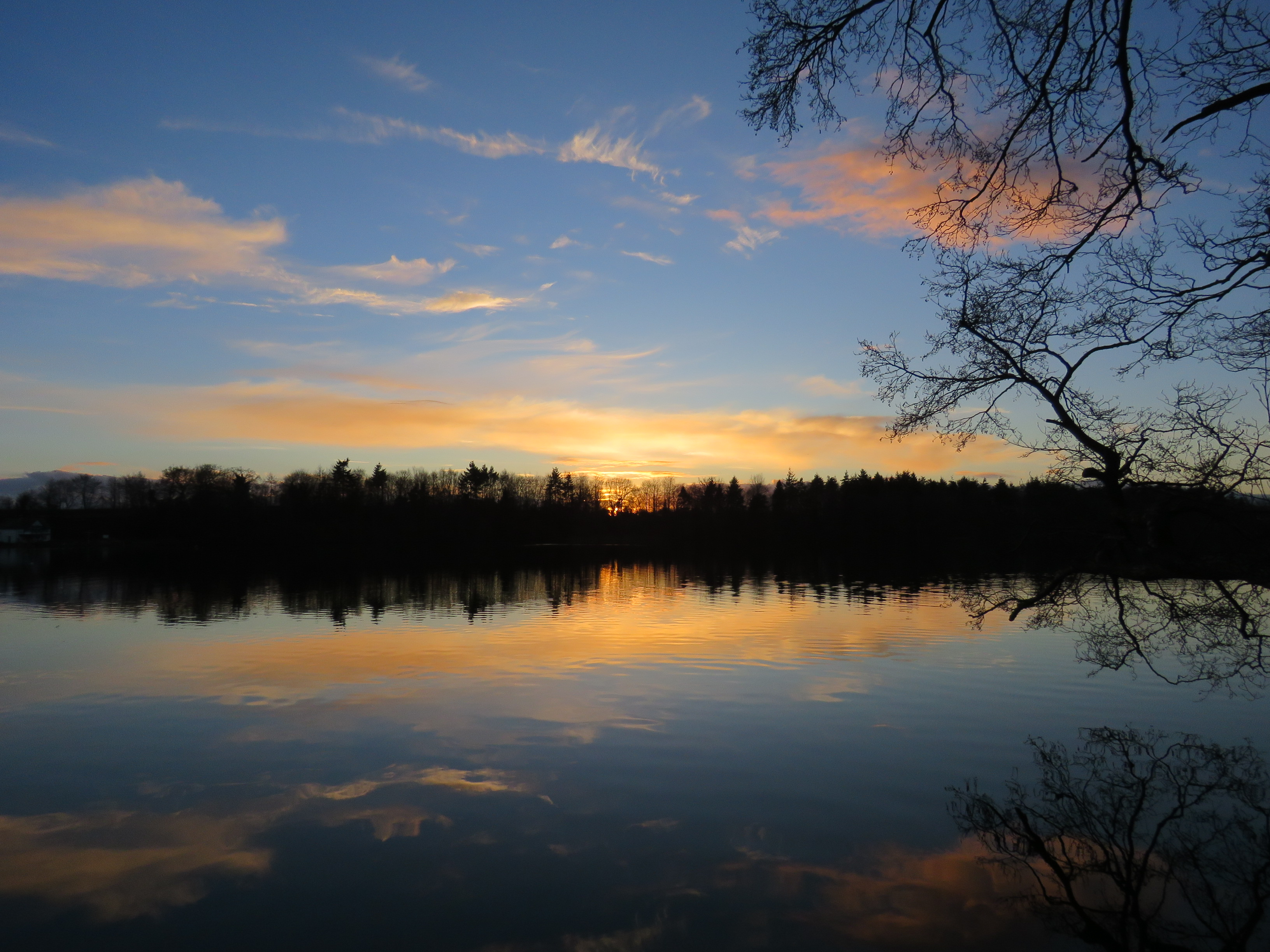 sunset over Colemere, Shropshire